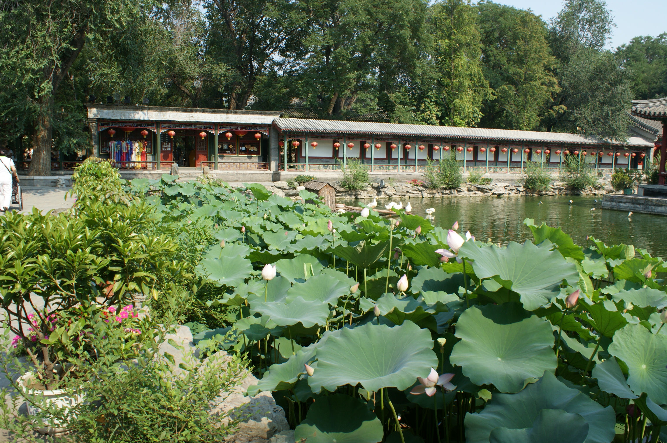 The Gong Wang Fu (Prince Gong Mansion) in Beijing